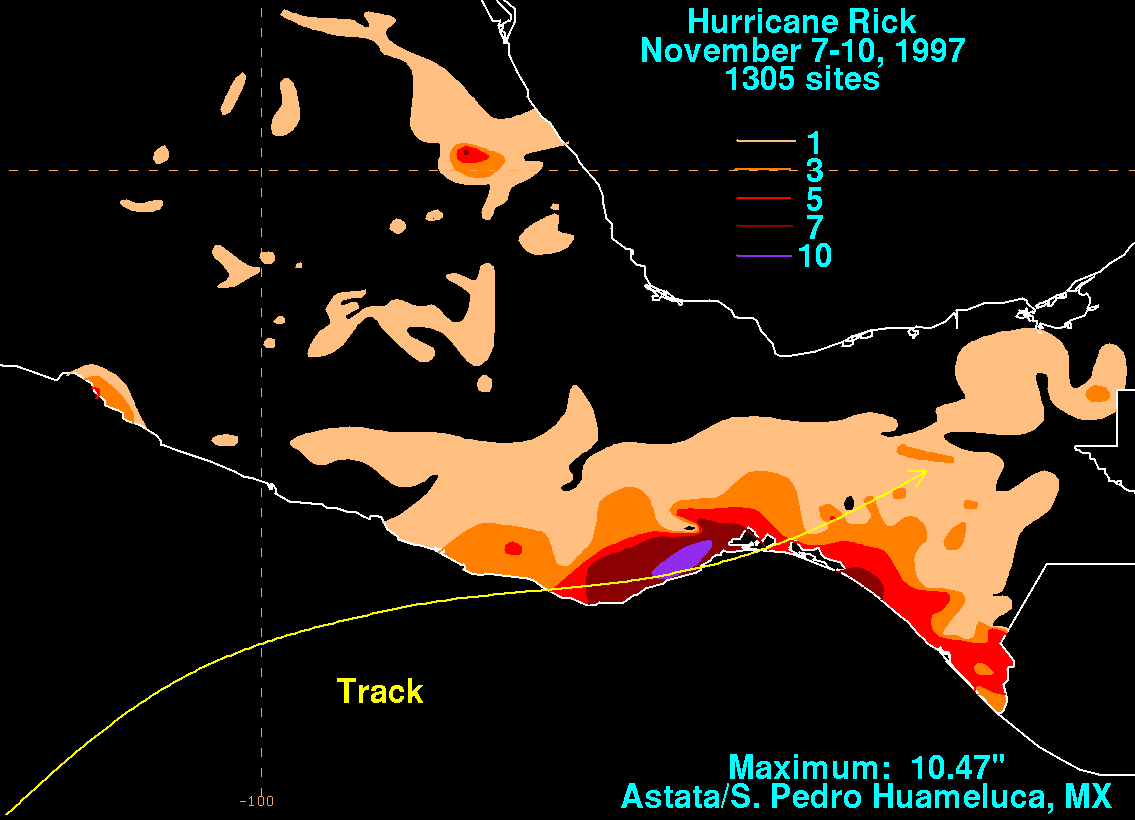 Storm total rainfall map of Hurricane Rick during November 1997.